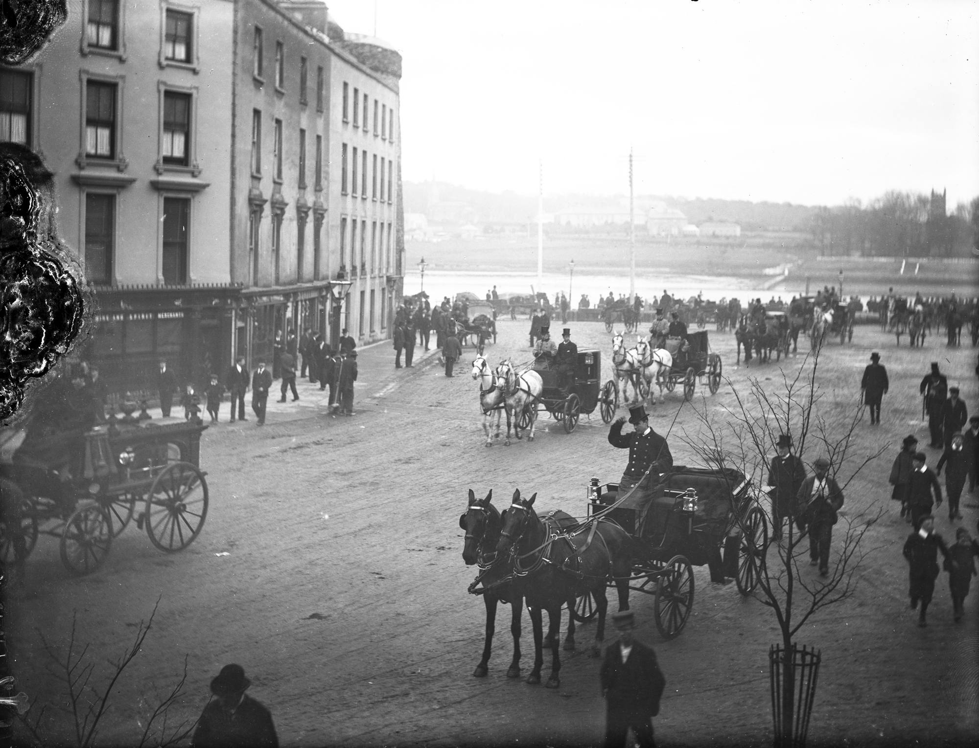 We were speaking of the Beresford and De la poer families yesterday, so when I spotted this one (taken 112 years ago today), it was irresistible. Taken on The Mall in Waterford city, the hearse is just disappearing out of the left hand side of this shot. Date: Thursday, 3 January 1901 NLI Ref.: P_WP_1160